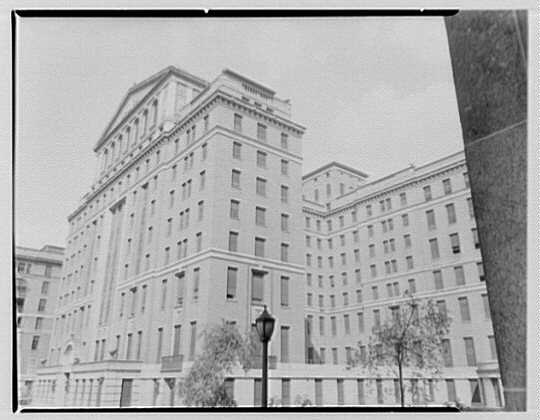 Bellevue Hospital, 28th St., New York City. View from outpatient's room IA